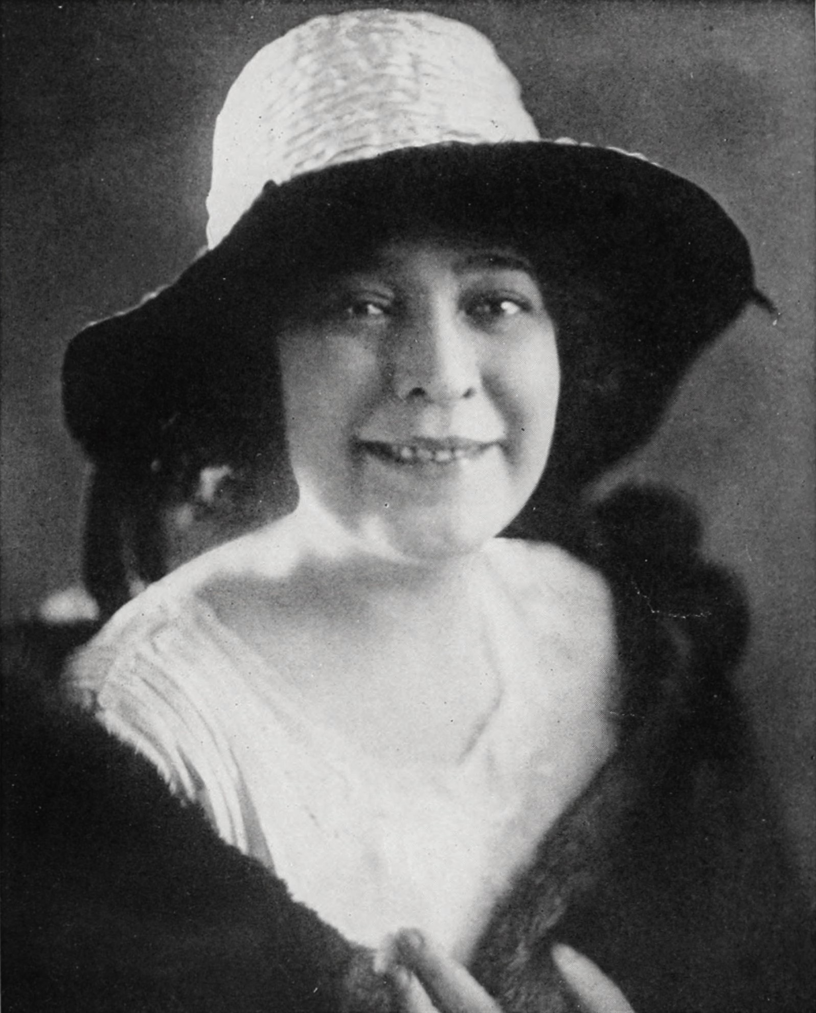 Screenwriter June Mathis from Who's Who on the Screen, published by Ross Publishing Co., 1920 [1]